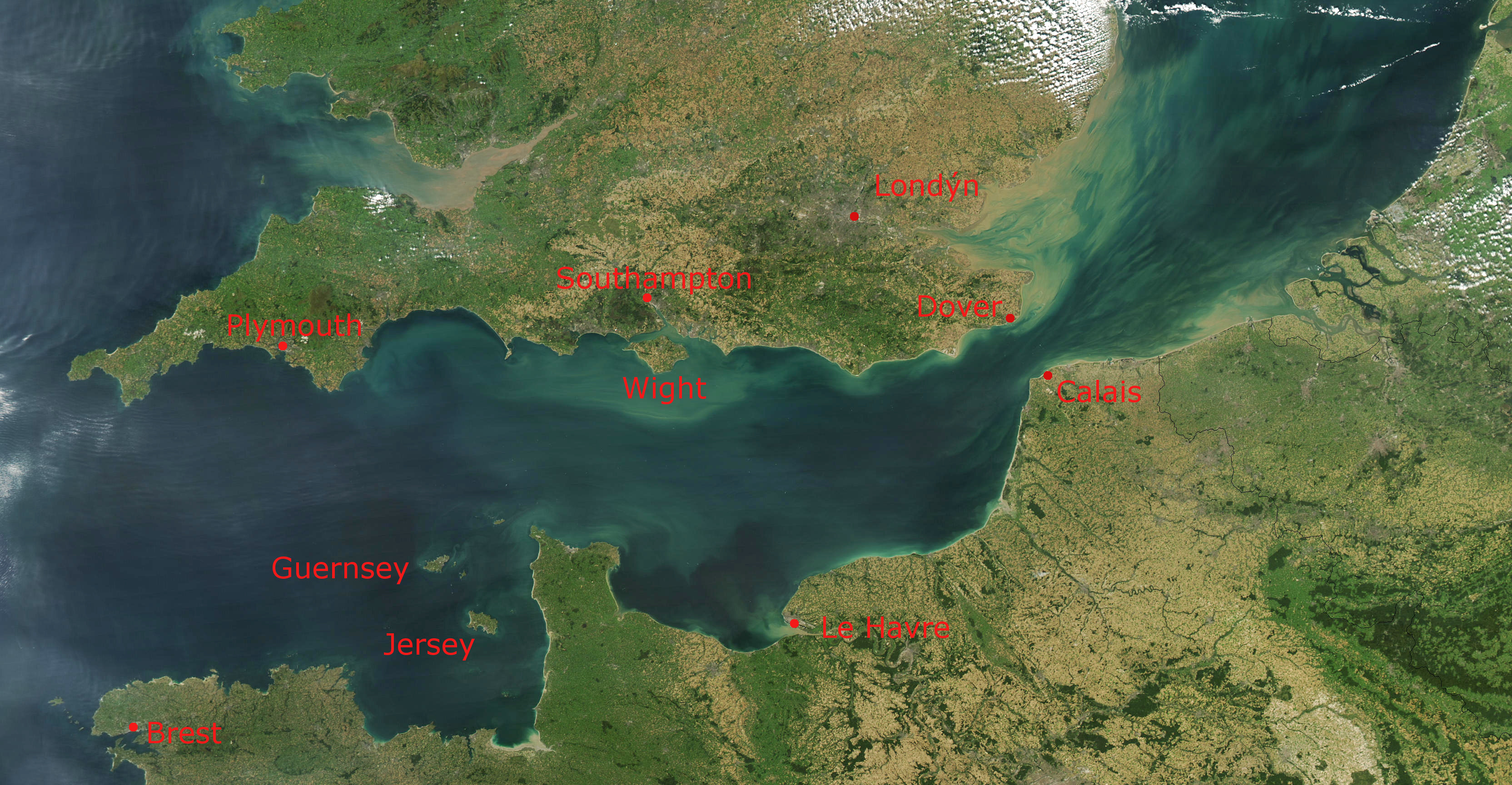 English Channel with Czech description.